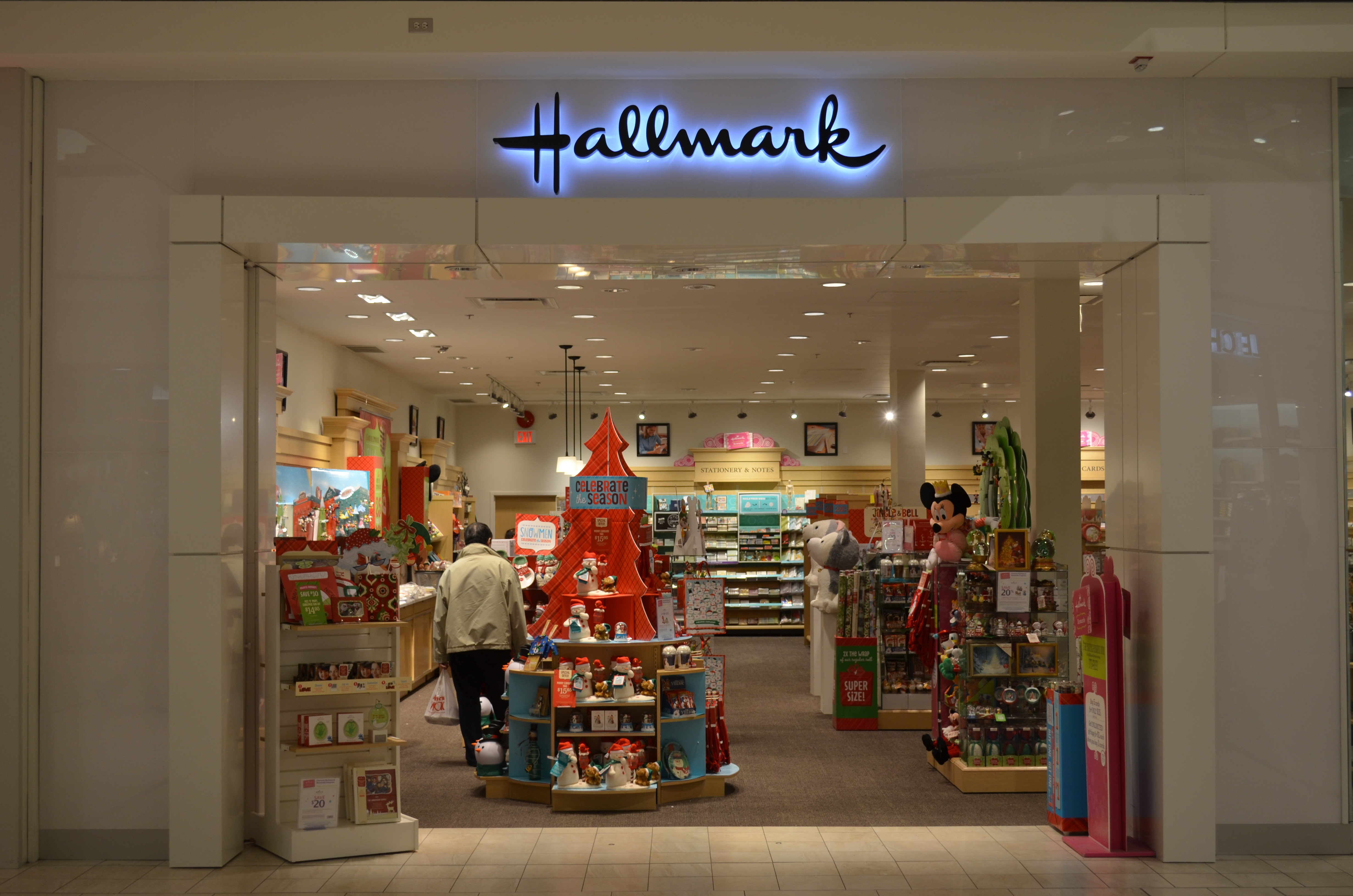 Hallmark Cards at Markville Mall